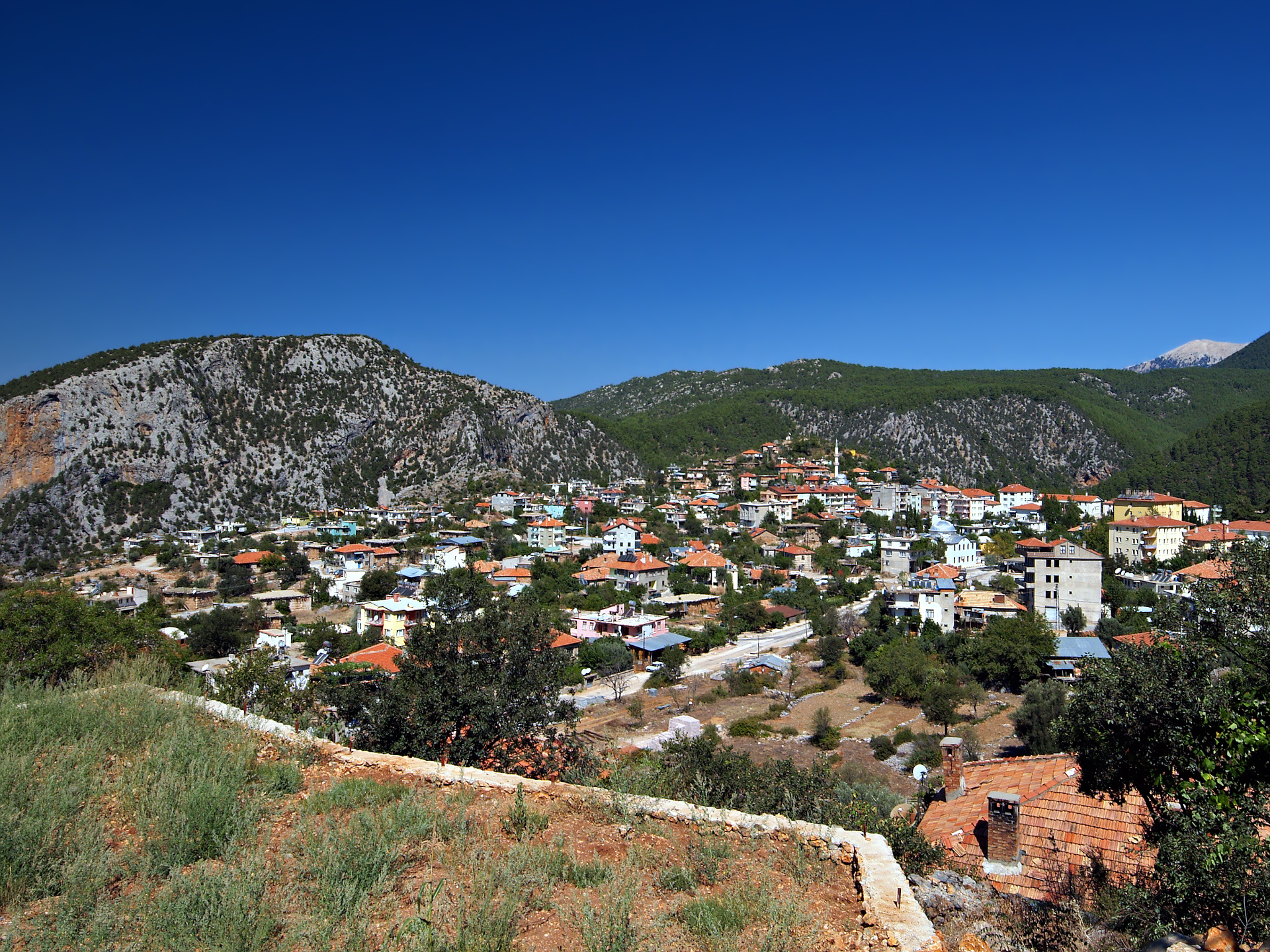 View of Gündoğmuş from Southeast